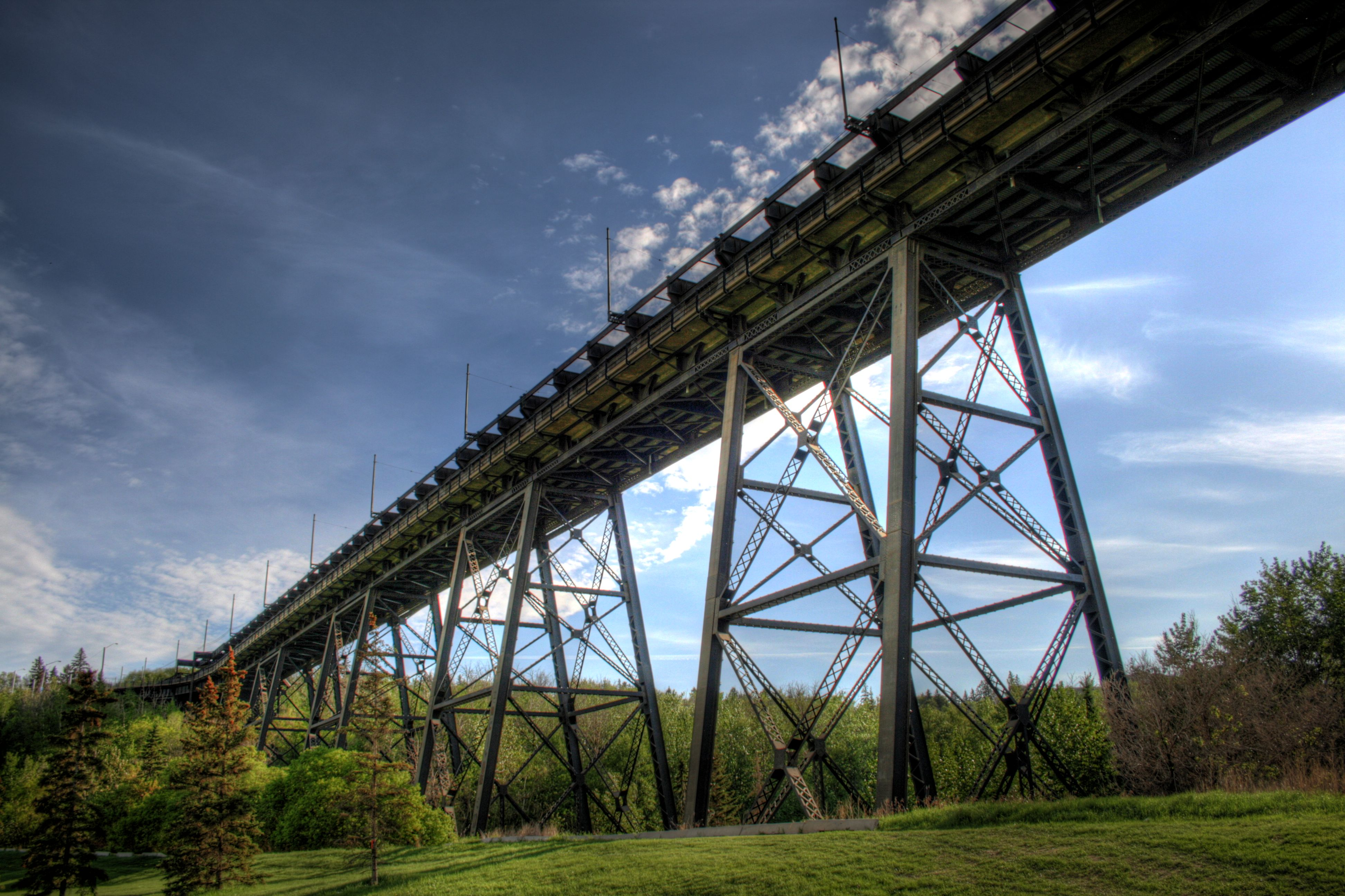 South end of the High Level Bridge over the Kinsmen Sports Center grounds in Edmonton, Alberta, Canada.